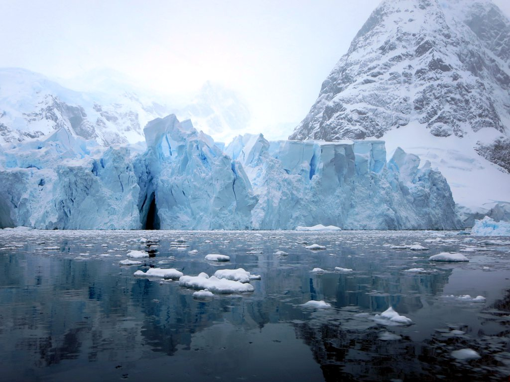 Glacier Petzval at Skontorp Cove on Paradise Bay rates among the most beautiful in Antarctica and the world.